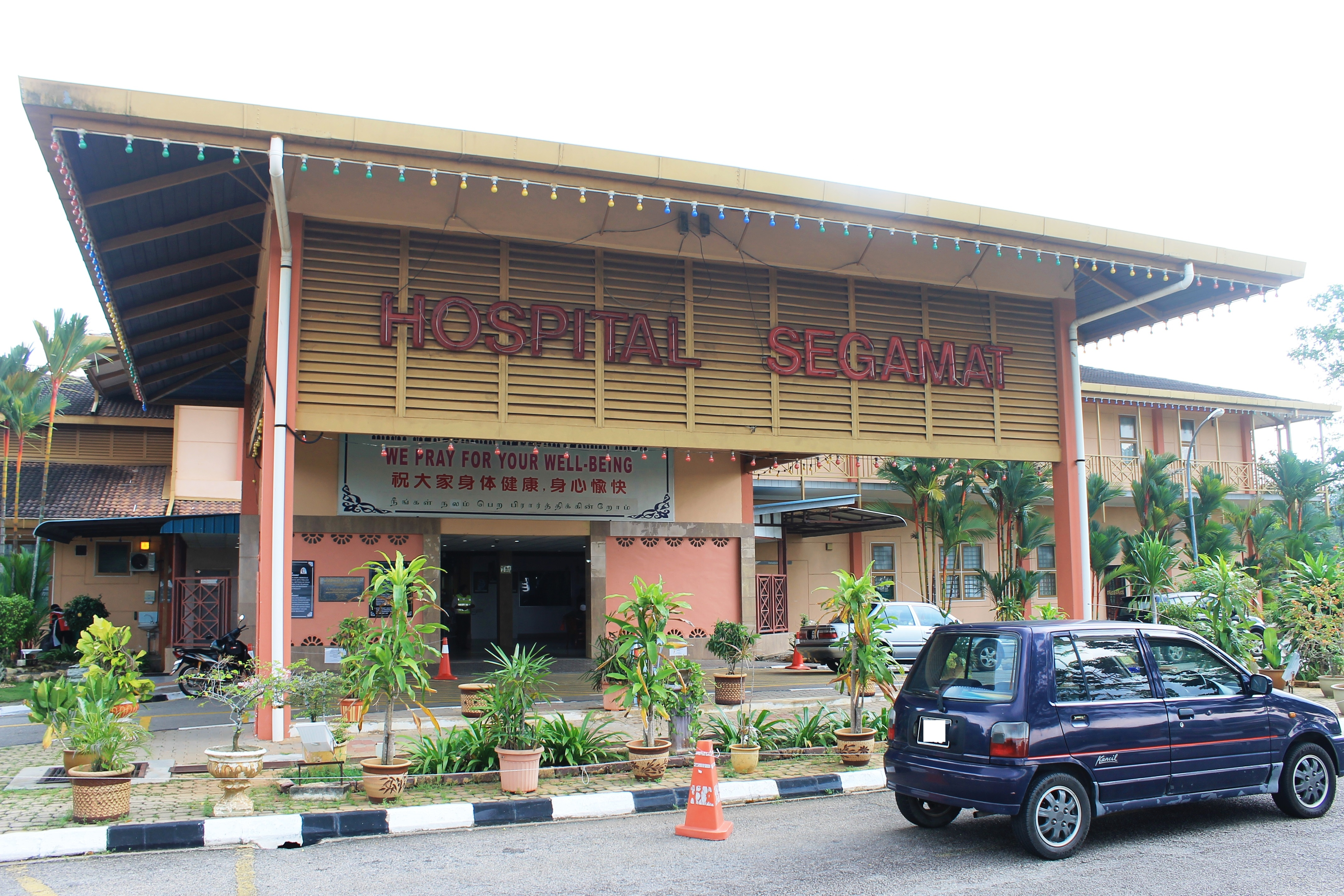 The main building of Hospital Segamat. Vehicle registration plate has been whitened for privacy purposes.